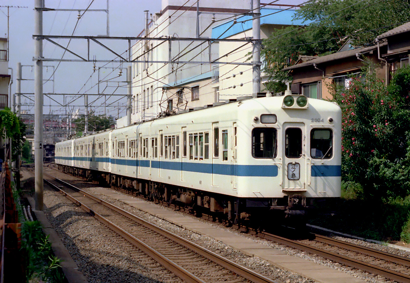 Odakyu Electric Railway 2300 Series EMU seen between Sangubashi and Yoyogihachiman in 1979.